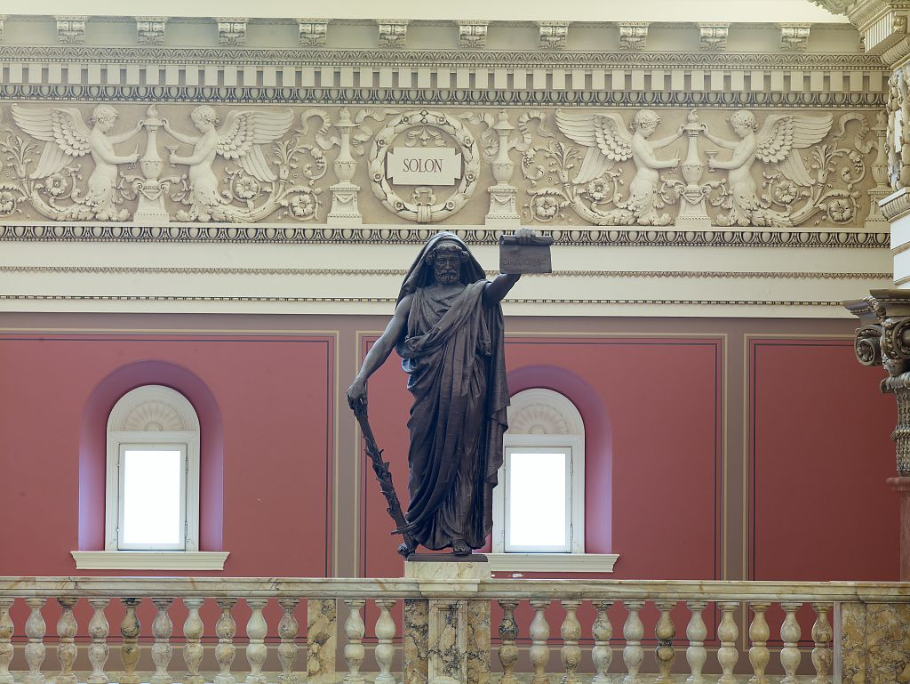 Main Reading Room. Portrait statue of Solon along the balustrade. Library of Congress Thomas Jefferson Building, Washington, D.C.